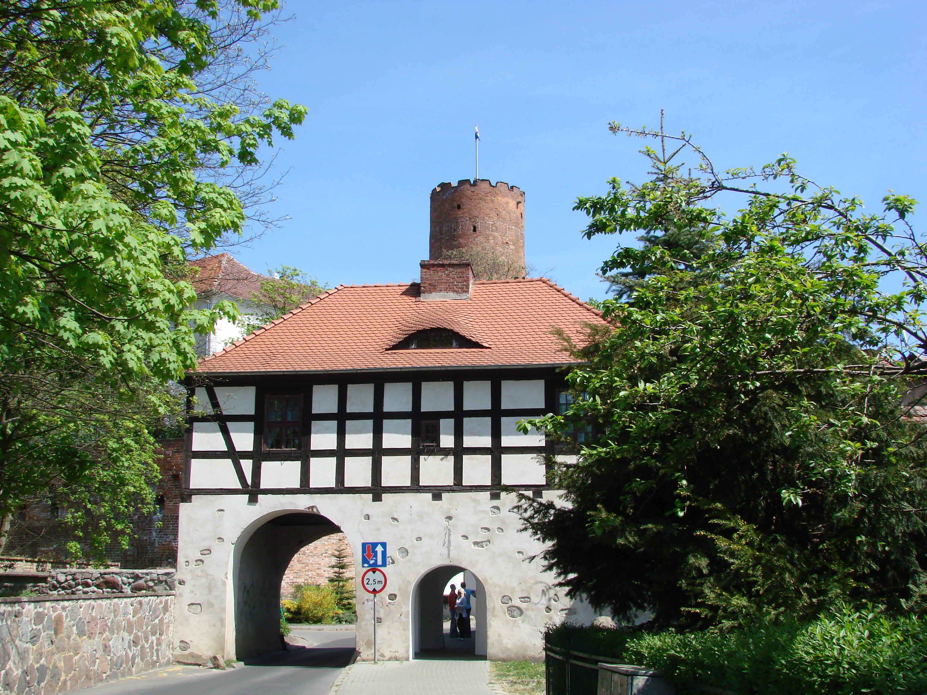 FILIP SZYDŁOWSKI,my own